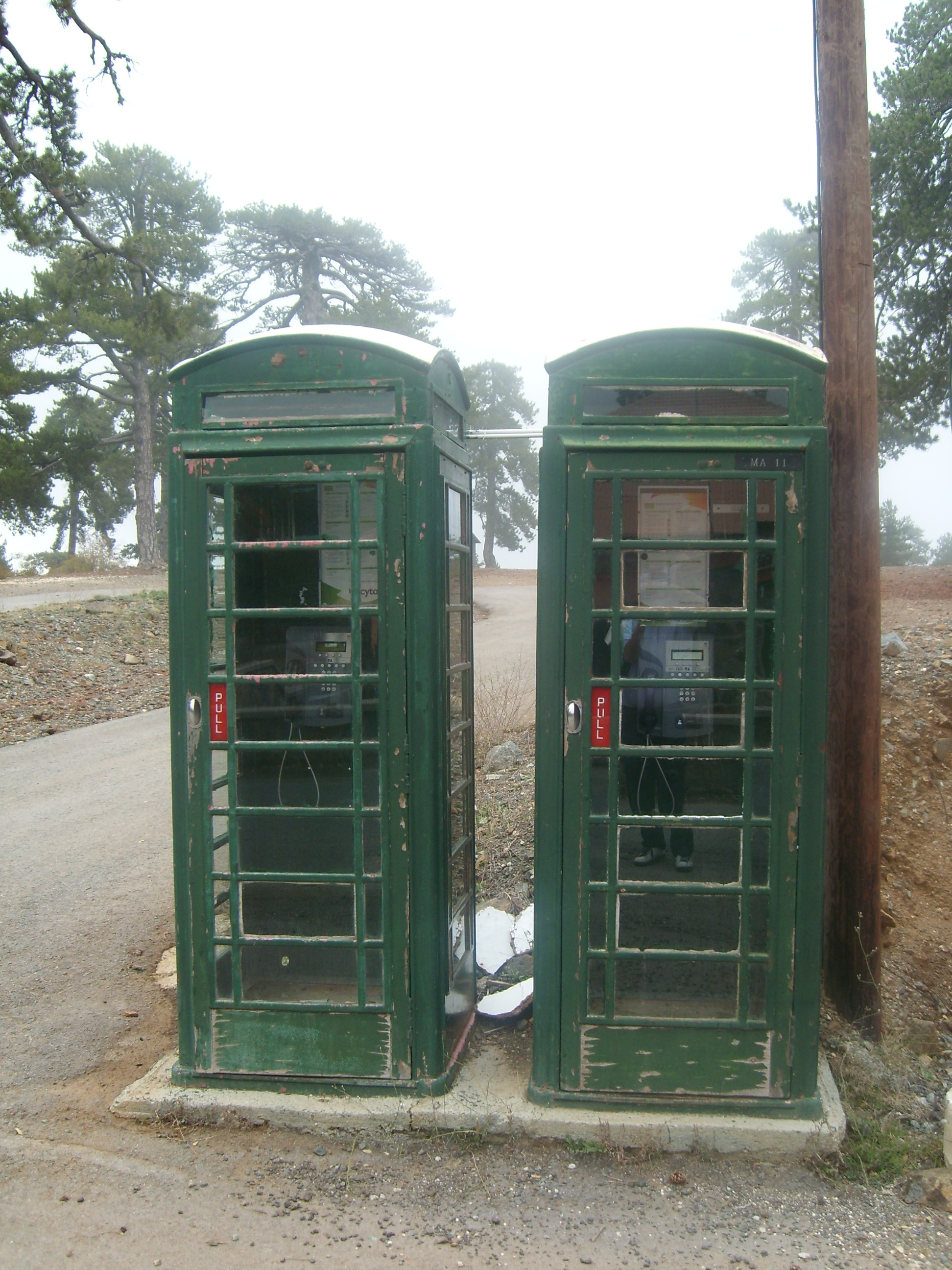 In rural areas of Cyprus the old British telephone boxes survived but were painted green. These two were photographed in the Trodos mountains.